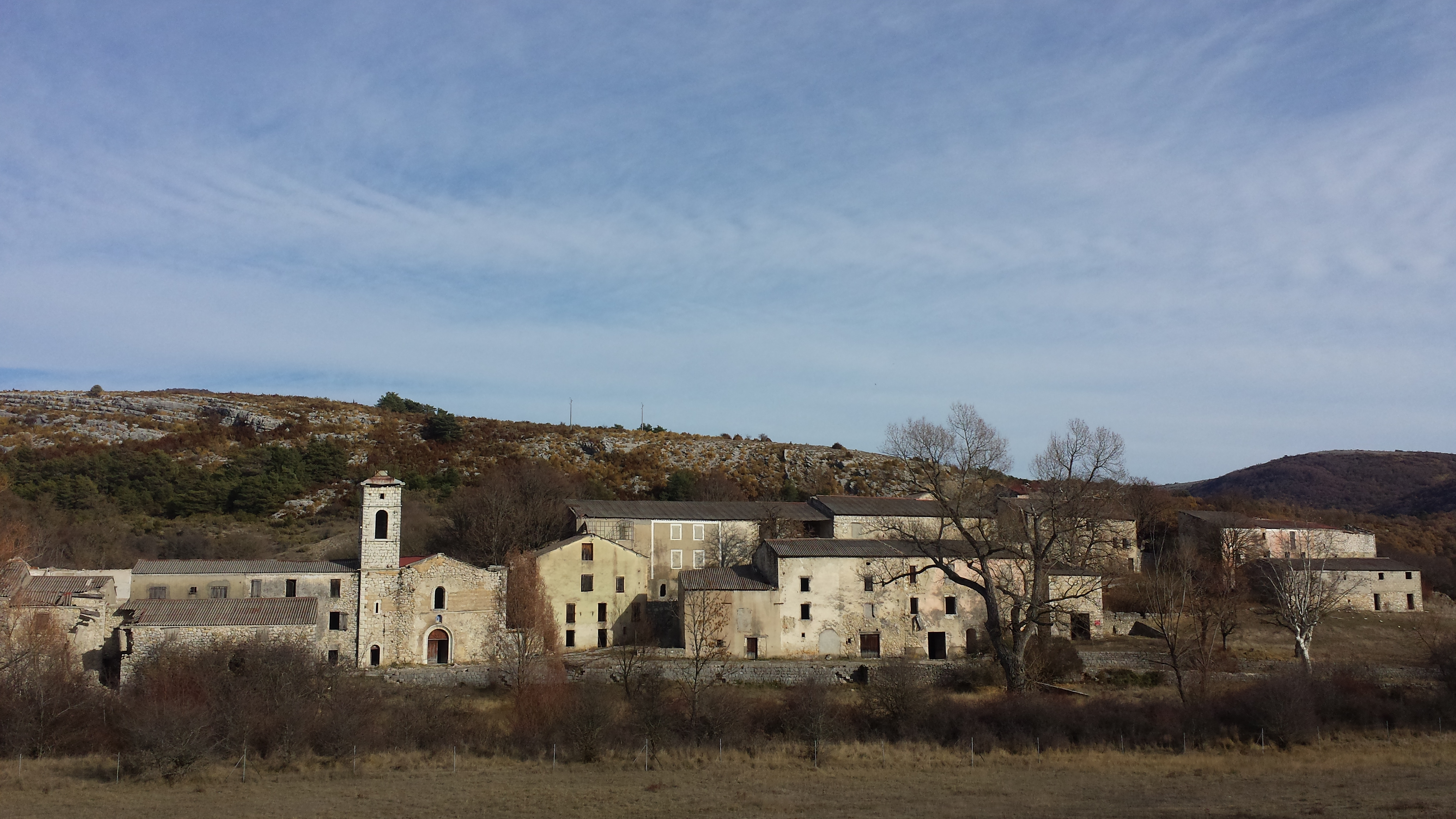 View of the abandoned village of Brovès in the Var (military camp of Canjuers).